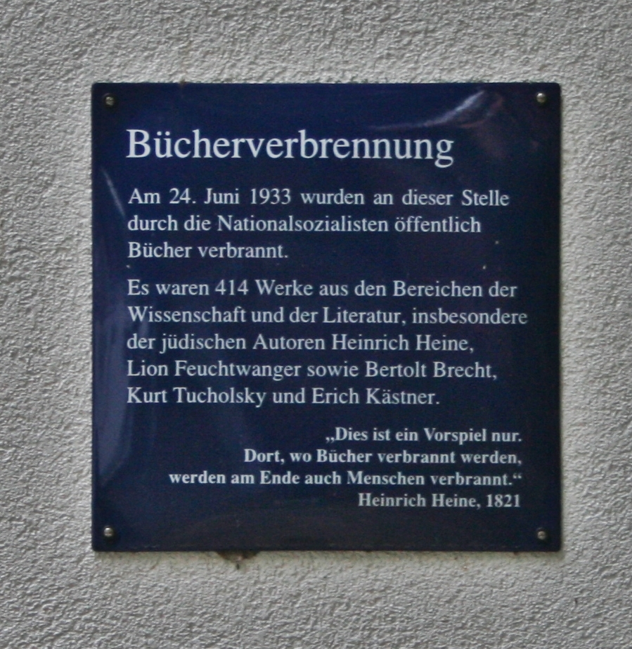 Memorial plate of book burning in Hamburg-Bergedorf 1933